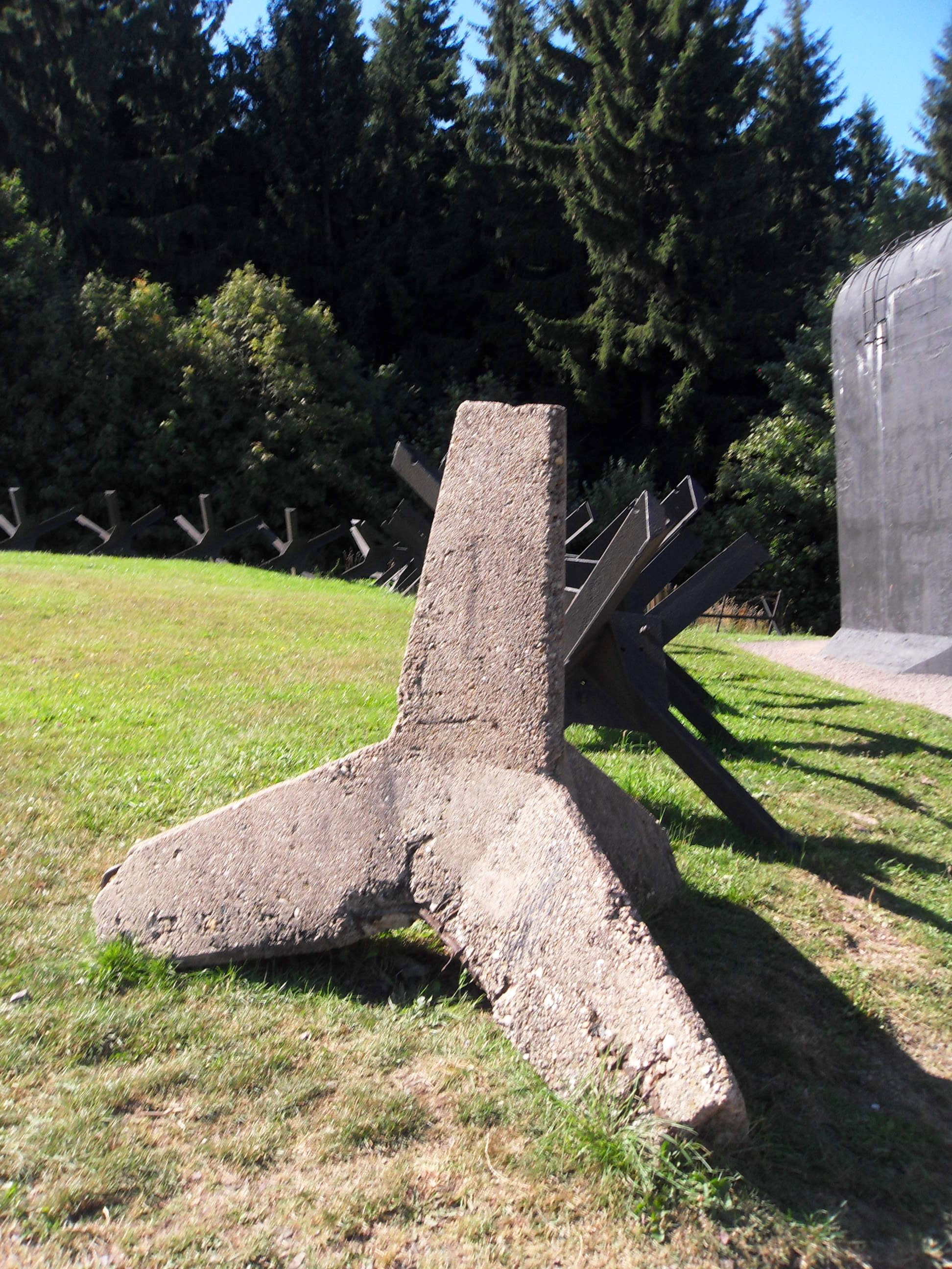 Concrete hedgehog and Czech hedgehogs near to T-S 73 Polom infantry casemate, Stachelberg fortress, Trutnov District, Czech Republic